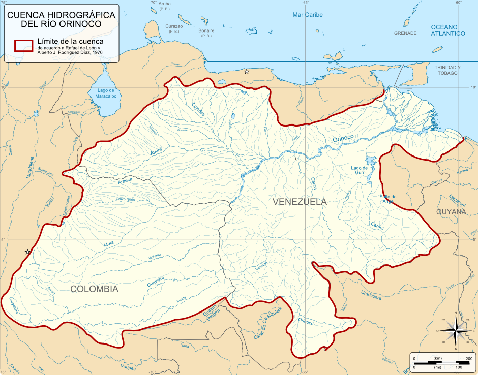 Basin of the Orinoco River